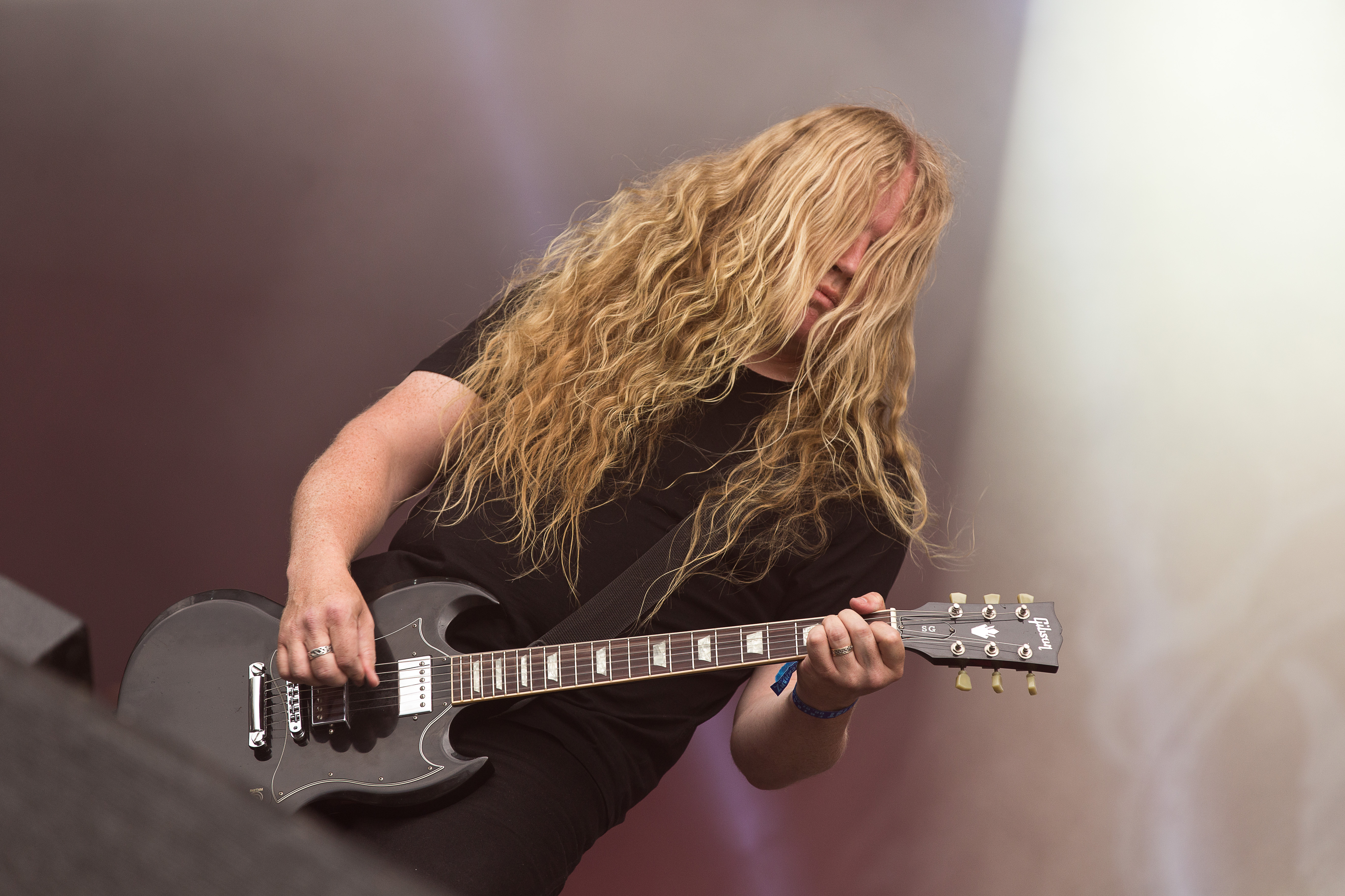 The Irish pagan metal band Primordial at the Rockharz Open Air 2016 in Ballenstedt/Germany.